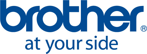 Brother pic